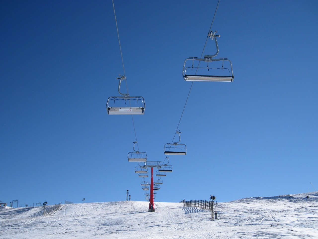 The new Holden six seat chairlift at Mt Buller, Victoria, Australia.